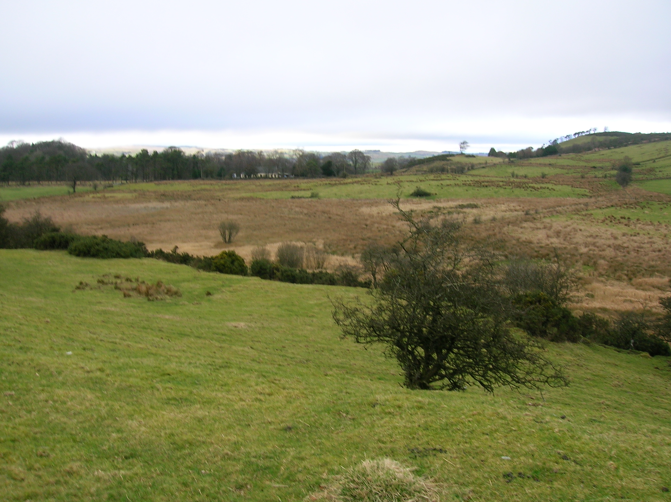 The site of Boghall Loch drained in the 17th century. Gateside, North Ayrshire, Scotland.